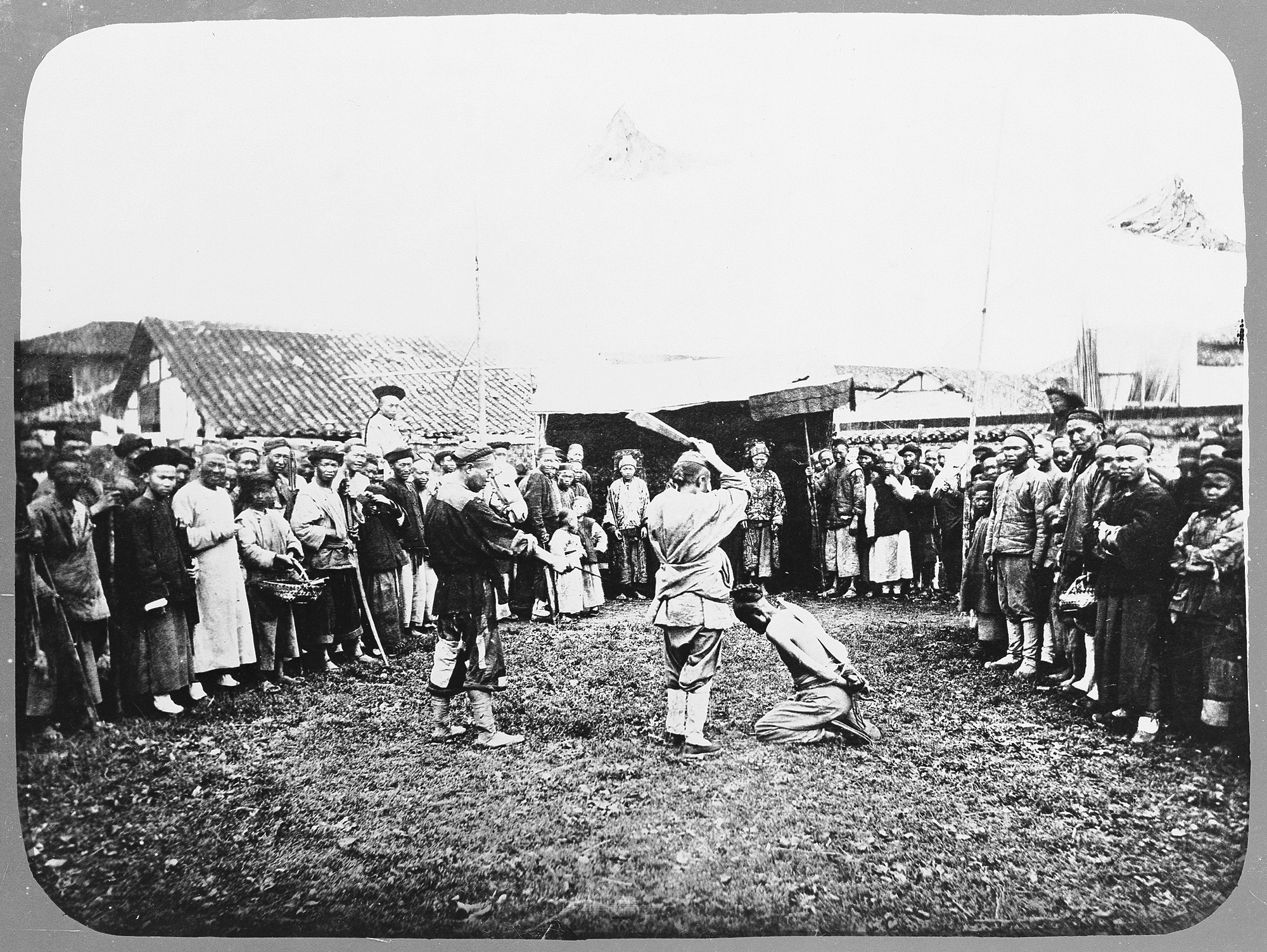 Beheading in the Qing Dynasty, China 中文（中国大陆）: 清朝斩首处决犯人